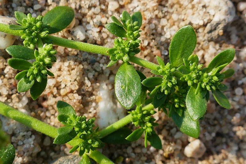 Herniaria glabra (Caryophyllaceae) (Smoother Rupture-wort) - (flowering), Lentse Waard, the Netherlands